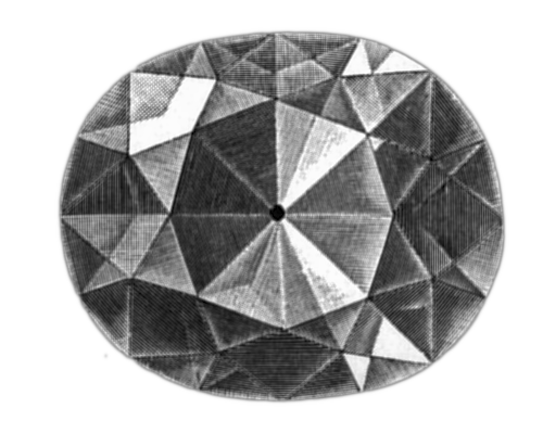 Koh-i-Noor after 1852